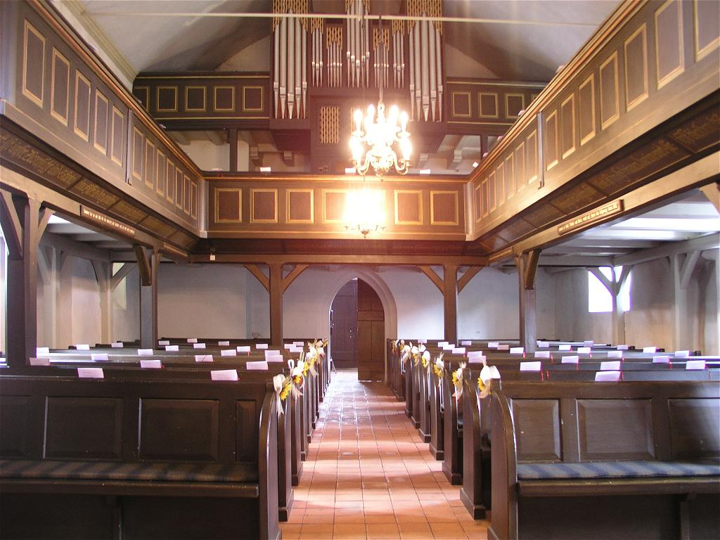 Ringstedt (Lower Saxony, Germany), church, interior , photo 2006